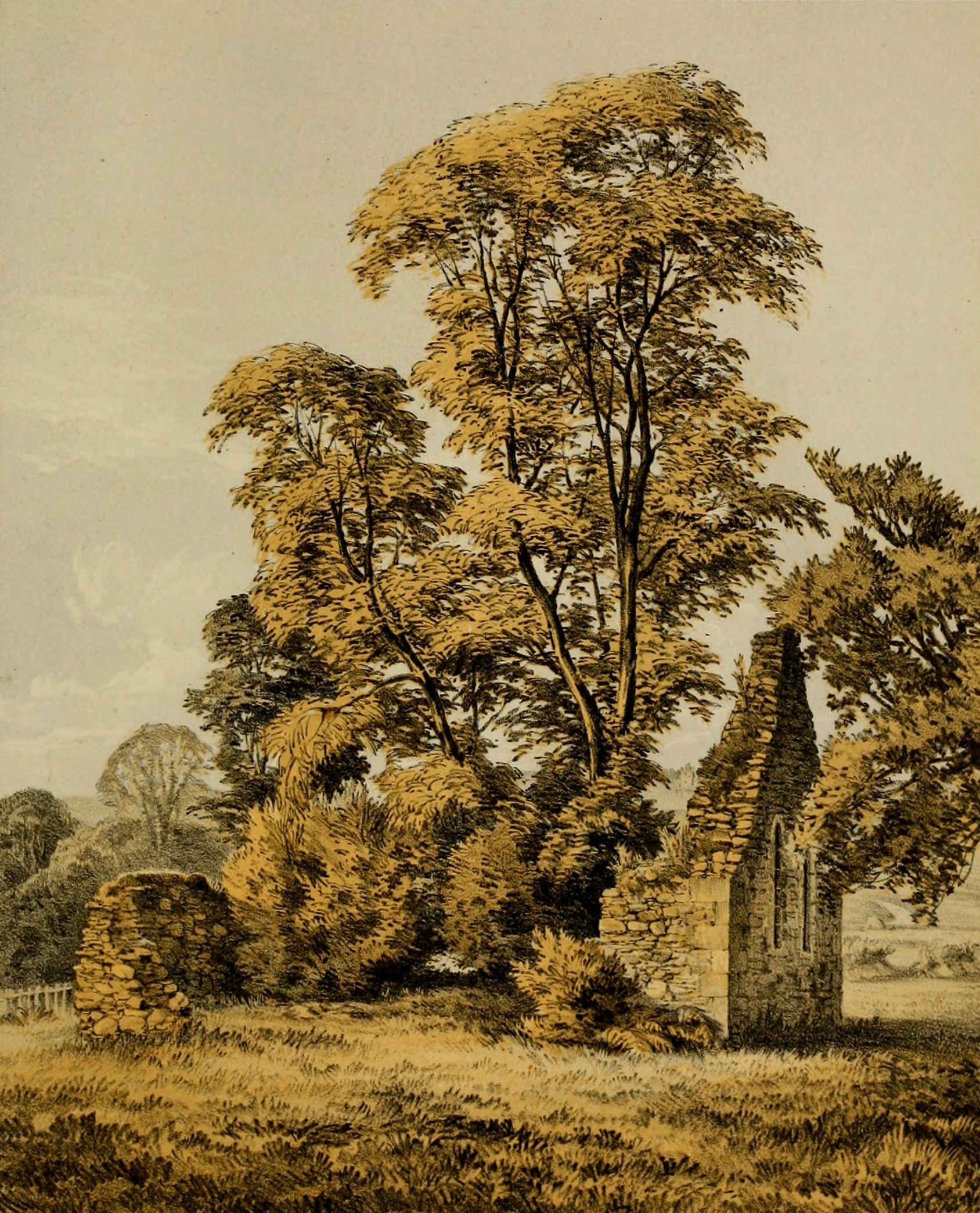 Original caption: "Ruins of Faslane Chapel Near The Head Of The Gareloch, Dumbartonshire".